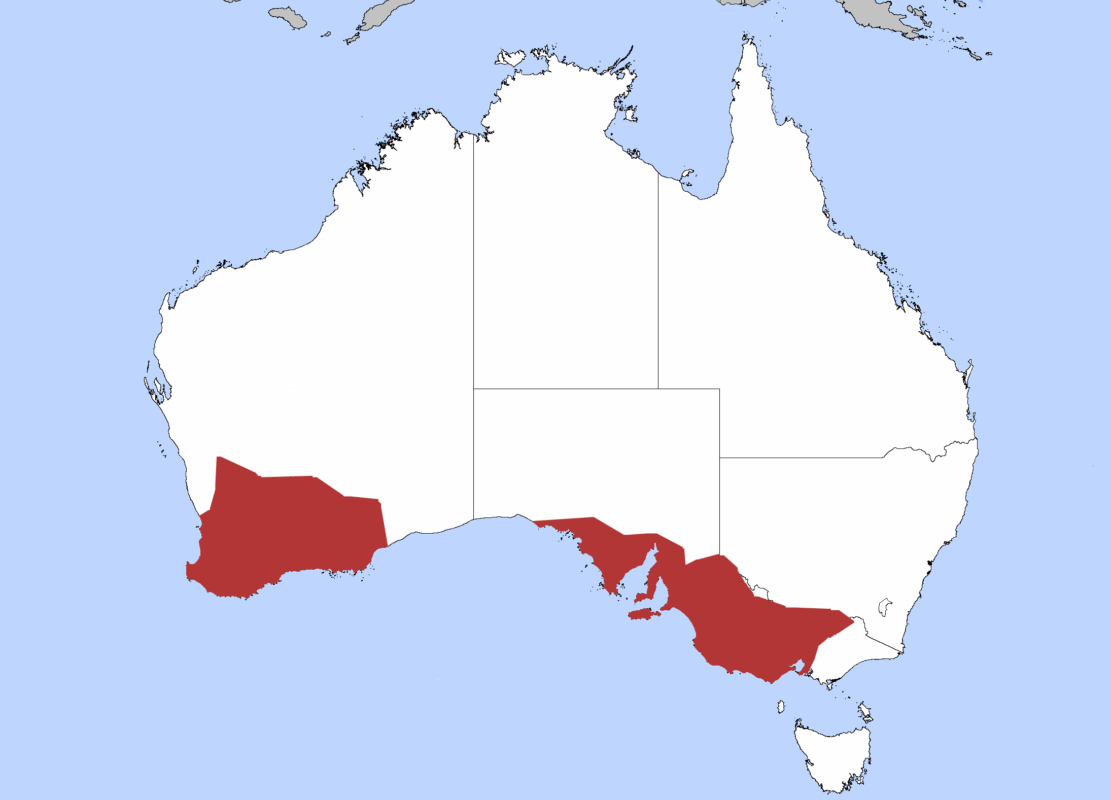 The Distribution of the Purple-crowned Lorikeet